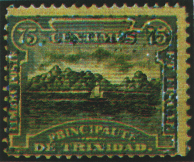 Stamp of the extinct country Principate de Trinidad.